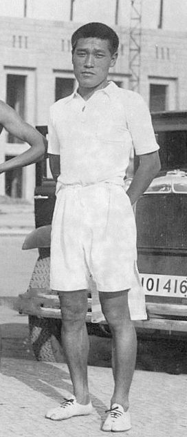 Kitei Son, or Son Gi-jeong competes for Japan in the Men's Marathon during the Berlin Olympic at Olympic Stadium on August 9, 1936 in Berlin, Germany.